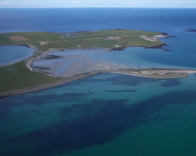 Aerial view, Papa Stronsay Taken from an Islander plane on an inter-island flight. The monastery buildings can be seen on the southern tip of the island. Orkney.